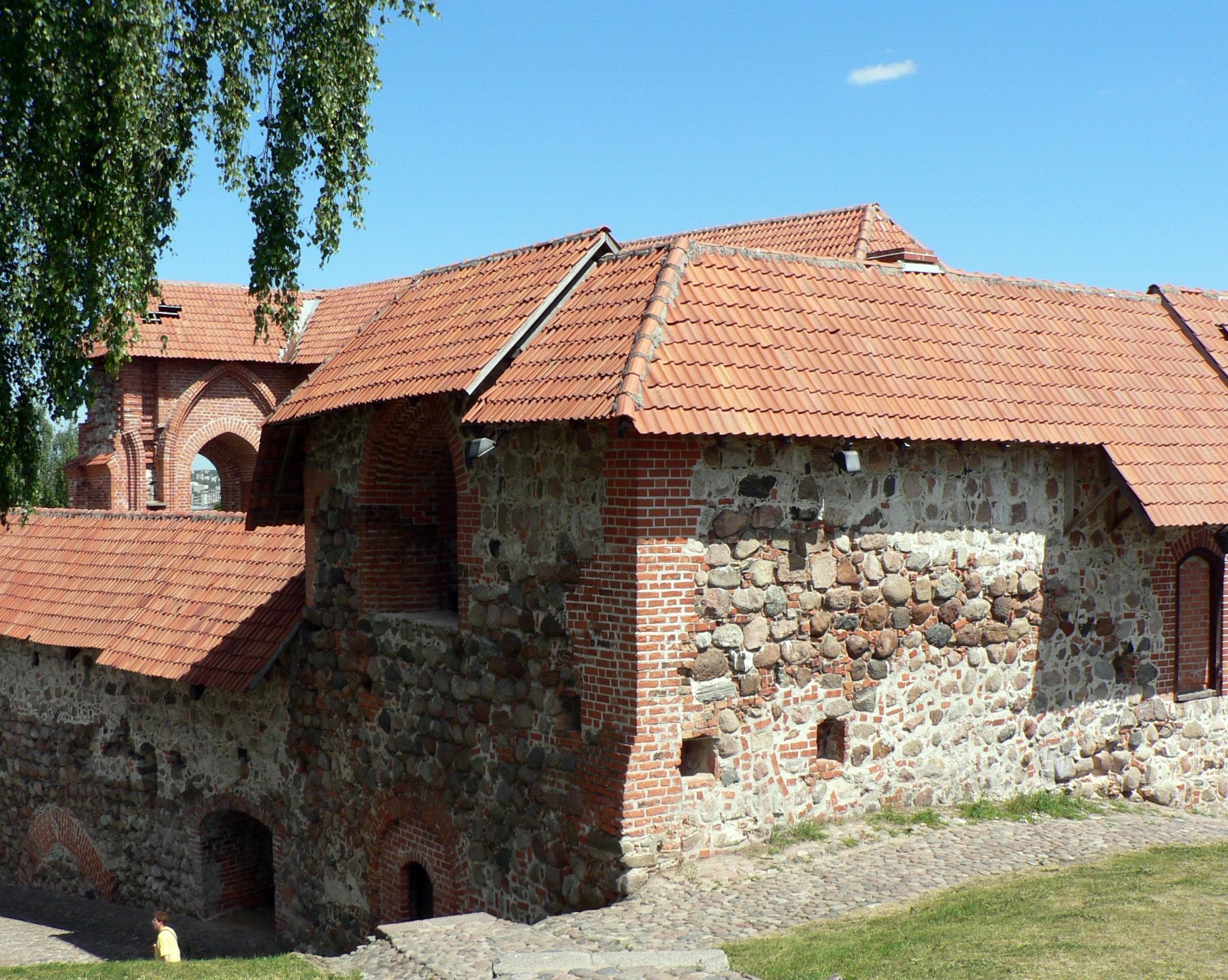 The Upper Castle in Vilnius, Lithuania